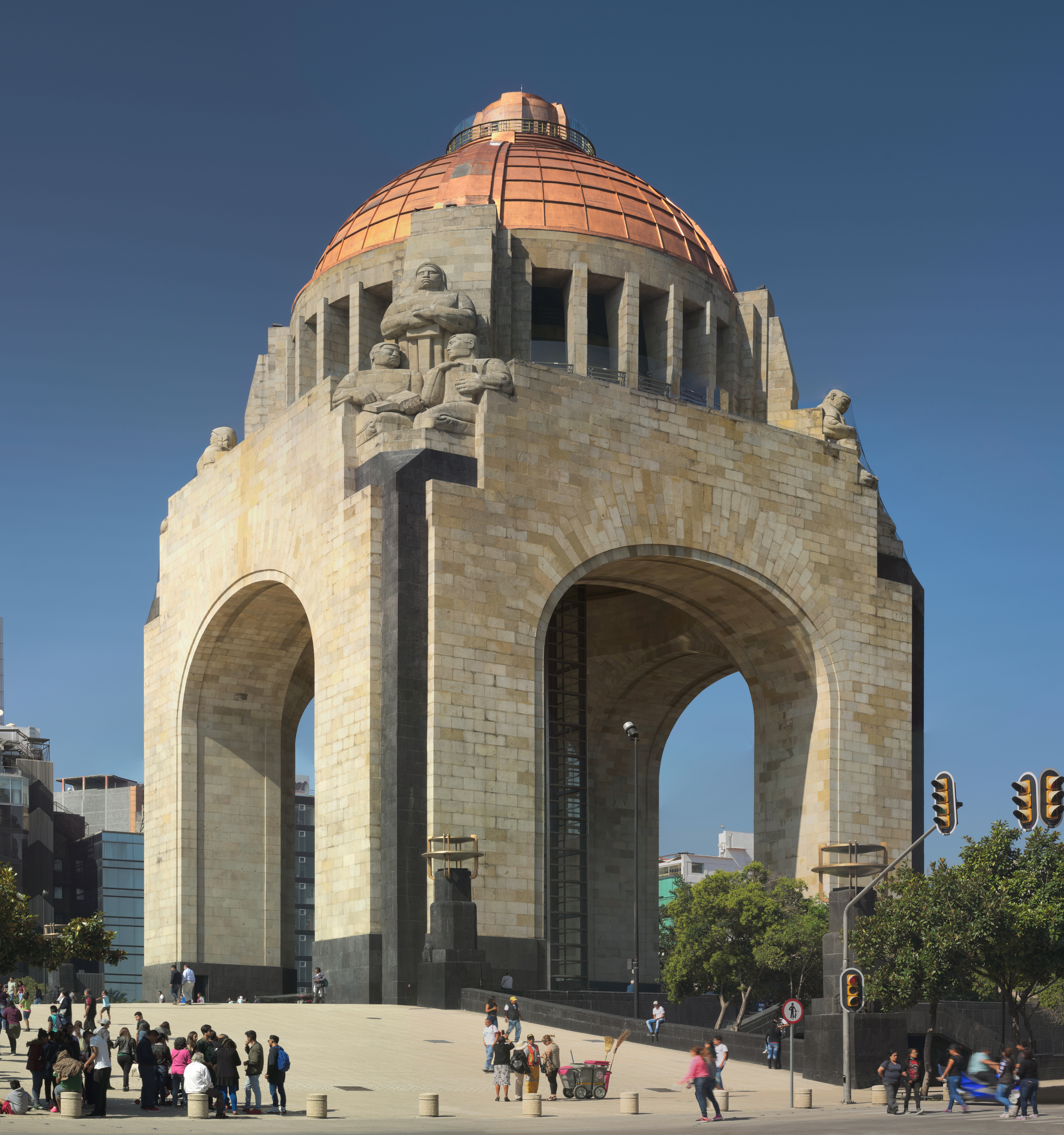 Monument to the Mexican Revolution, Mexico City, Image produced by combining 6 photographies